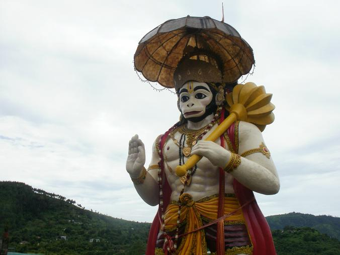 52 feet high statue of Lord Hanuman at Naukuchiatal